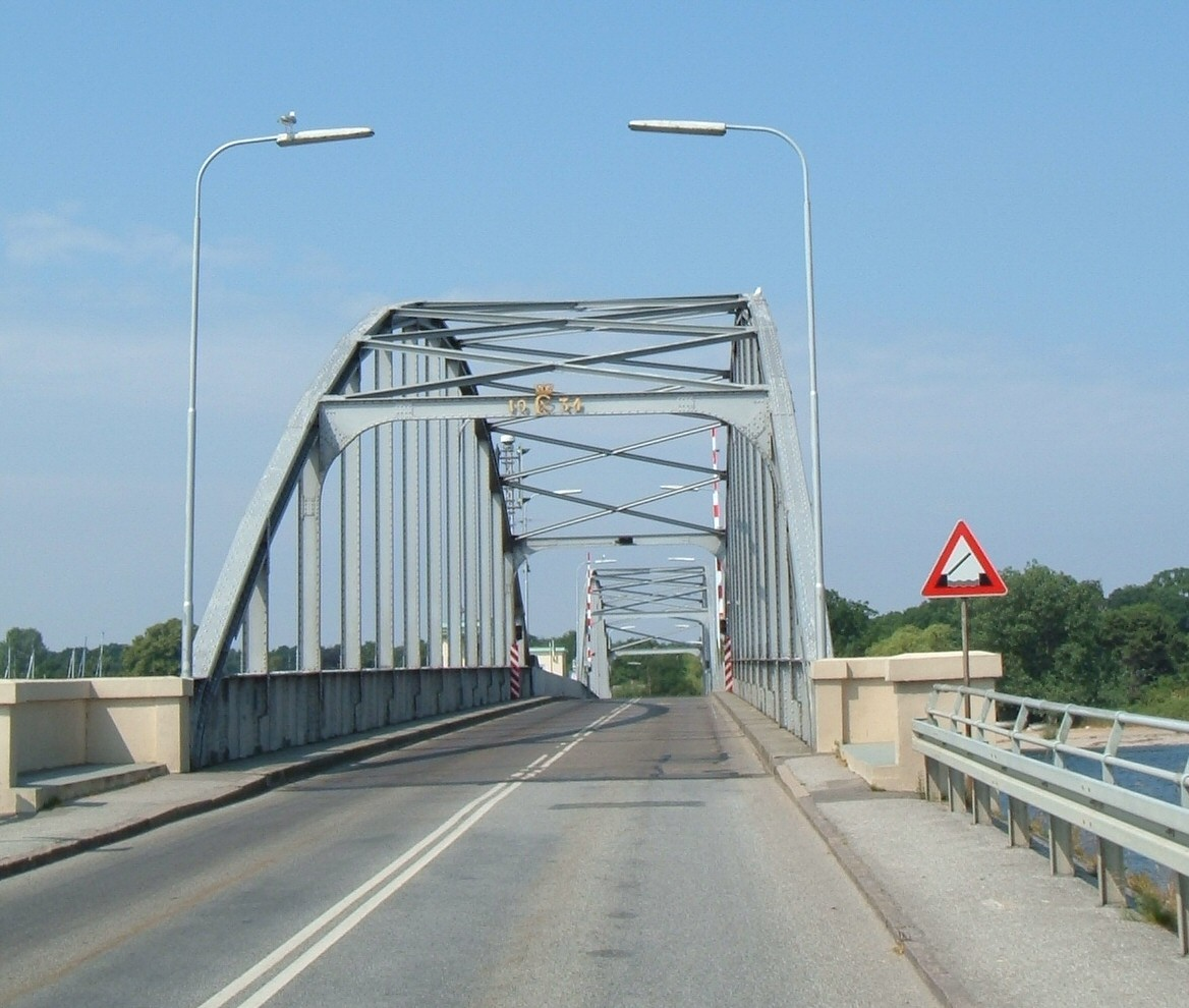 Guldborgsund Bridge across the northerm end of the Guldborg Sund between the islands of Lolland and Falster in Denmark. View of road deck. Taken by contributor, july 2006.